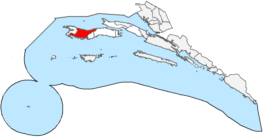 map of Blato na Korčuli municipality within Dubrovnik-Neretva County.